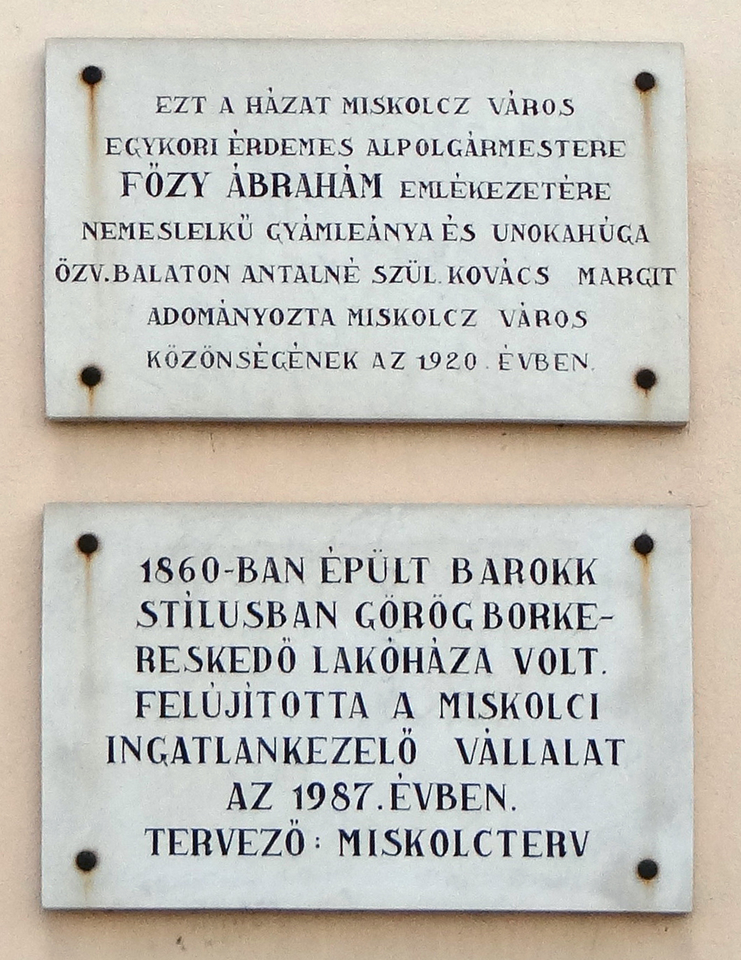 Plaque in 22 Kossuth Street (Főzy House), Miskolc